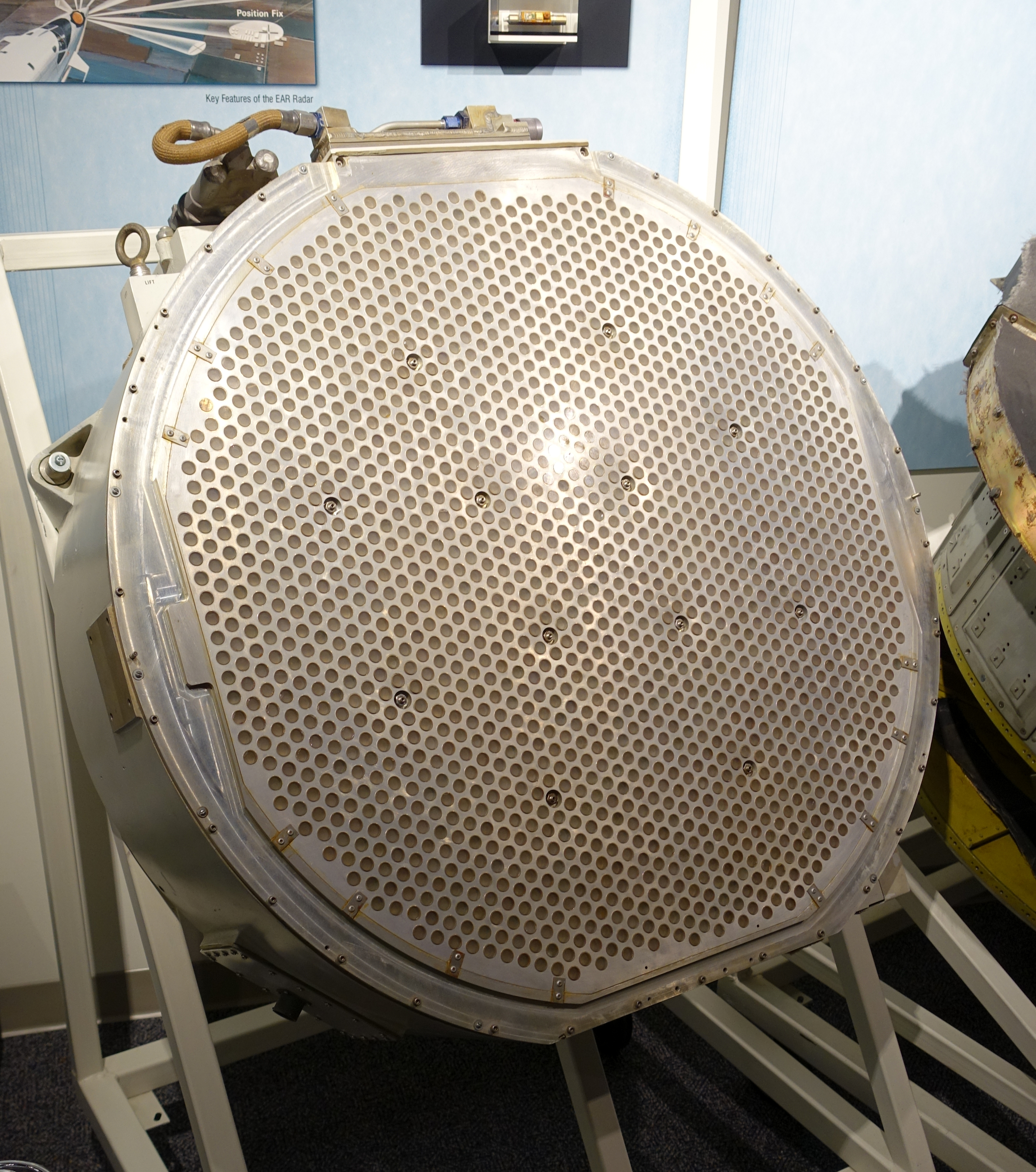 Exhibit in the National Electronics Museum, 1745 West Nursery Road, Linthicum, Maryland, USA. All items in this museum are unclassified. The museum permitted photography without restriction.